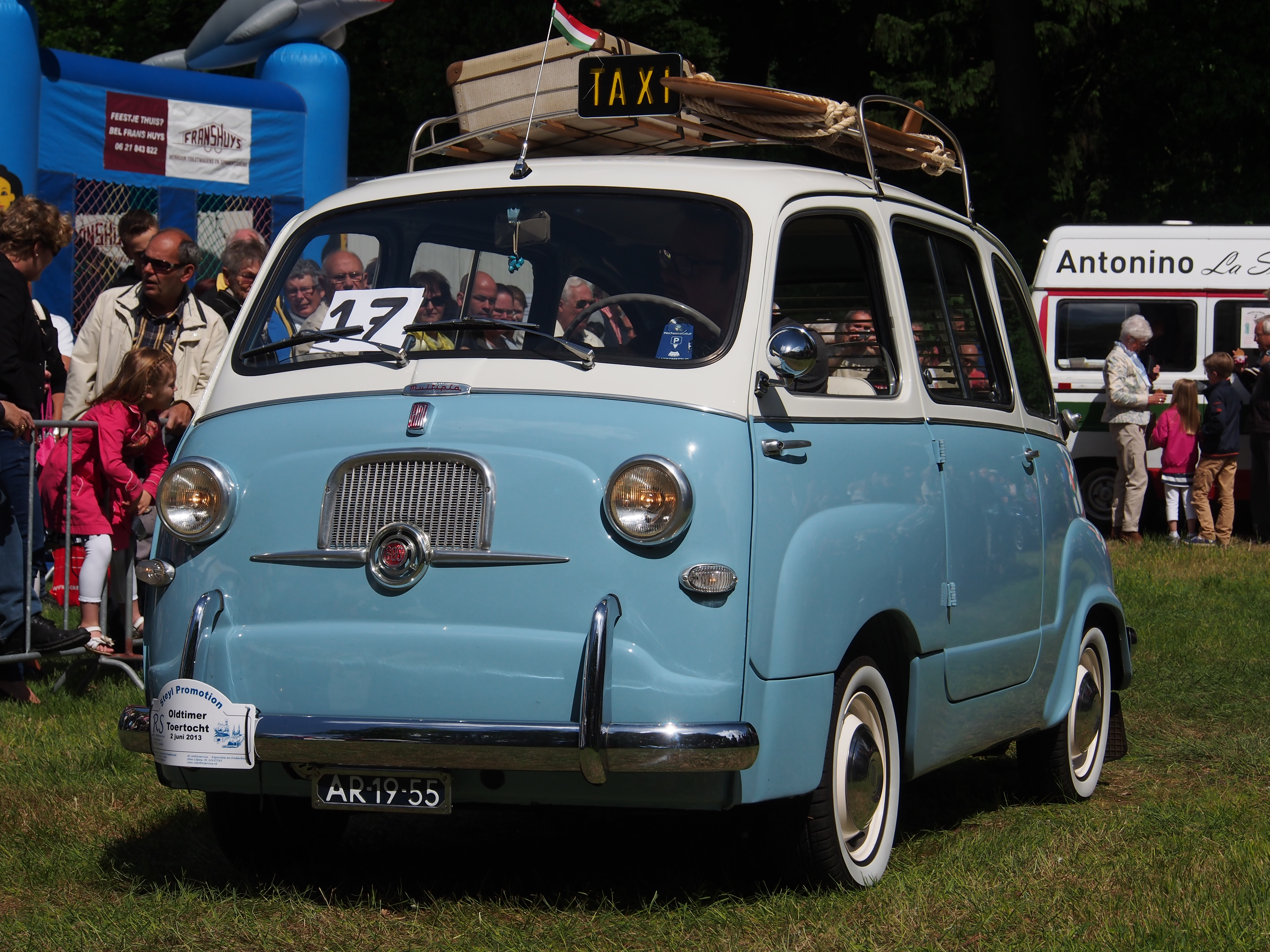 This is a picture of a 1957 Fiat Multipla Taxi.